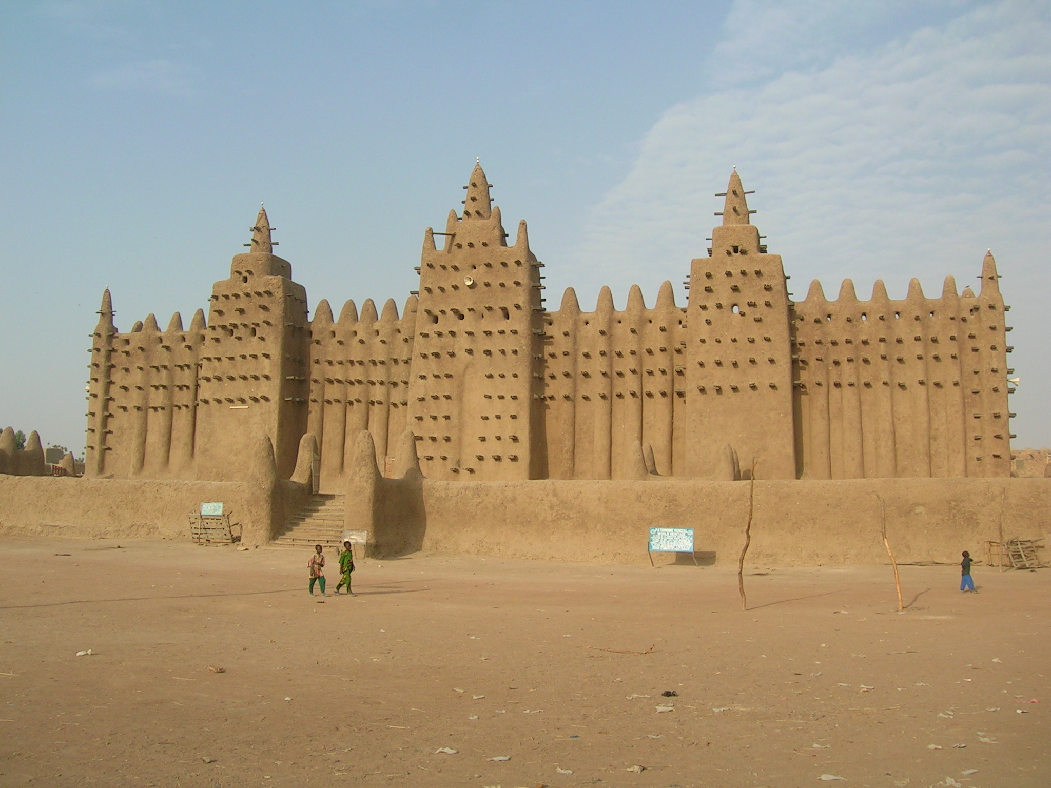 Old Towns of Djenné (Mali)